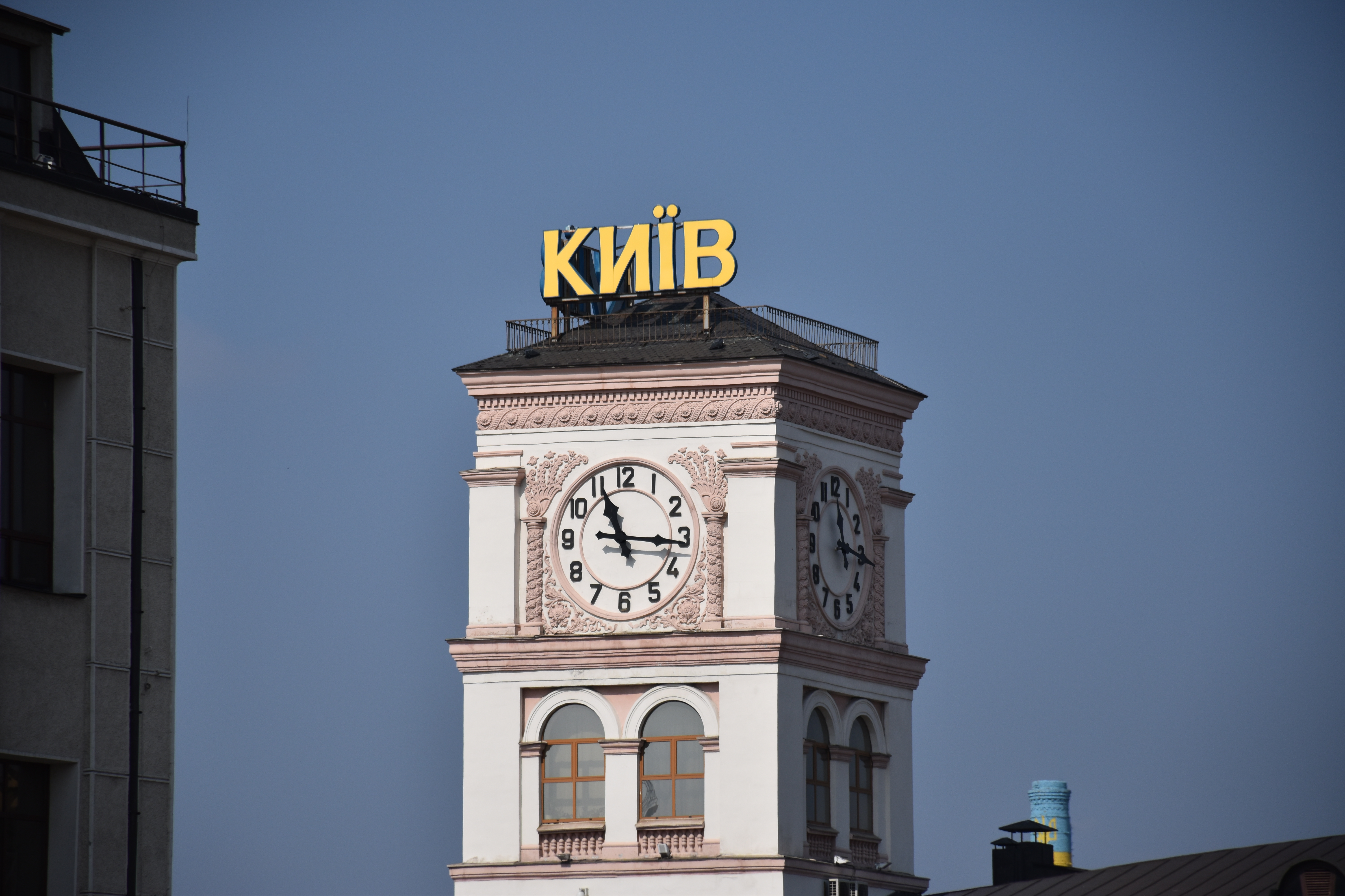 Сlock tower of Kiev Suburban Railway Station.